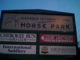 Author: Chris Miller Source: Took picture myself Rationale: to show the sign leading to the Georgia International Horse Park in Conyers.